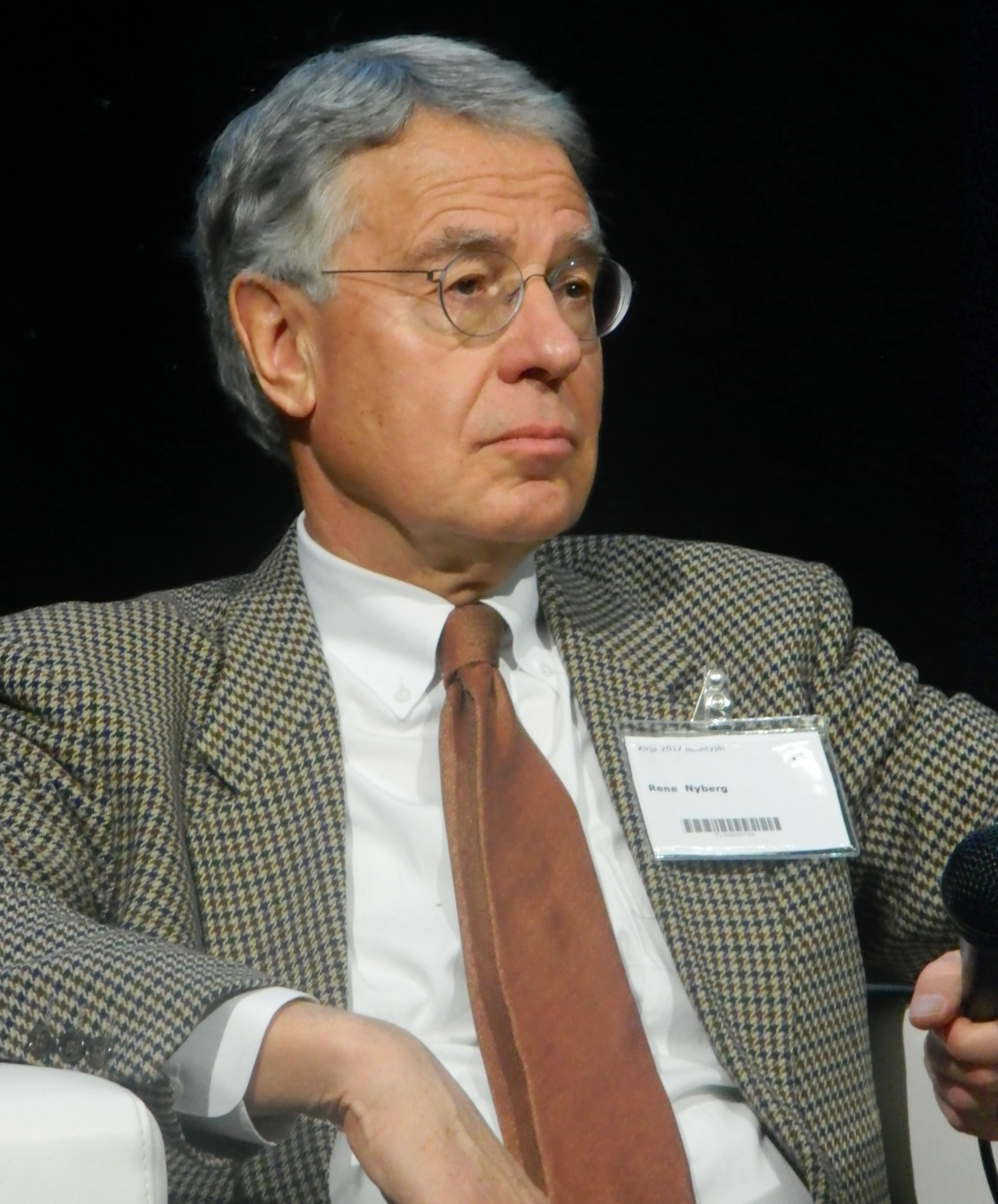 René Nyberg at Helsinki Book Fair 2017